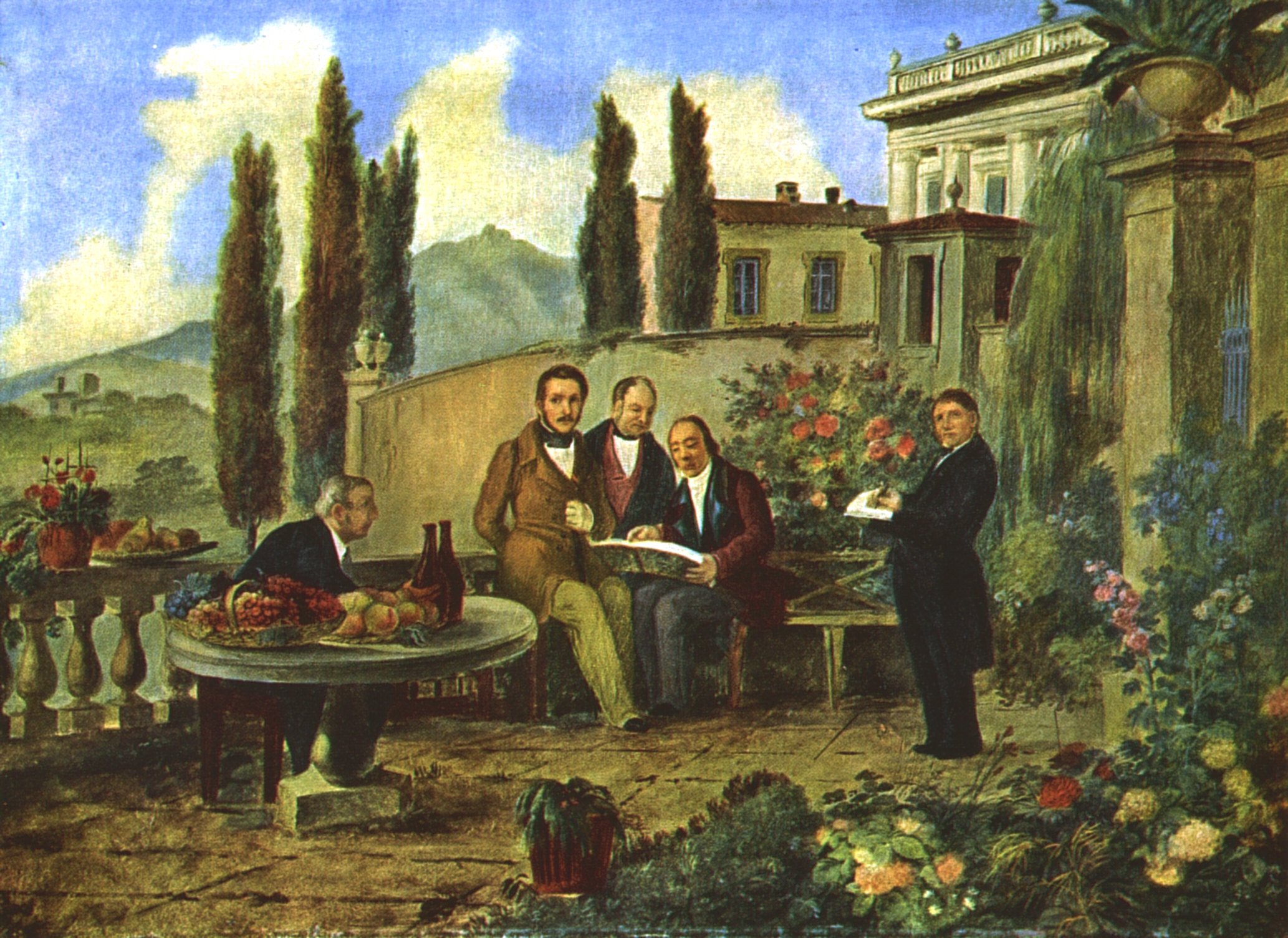 Donizetti and friends - oil on canvas cm 68x49 - Bergamo (Italy) museo donizettiano - from left Bettinelli, Gaetano Donizetti, Dolci, Simone Mayr and the autor Deleidi